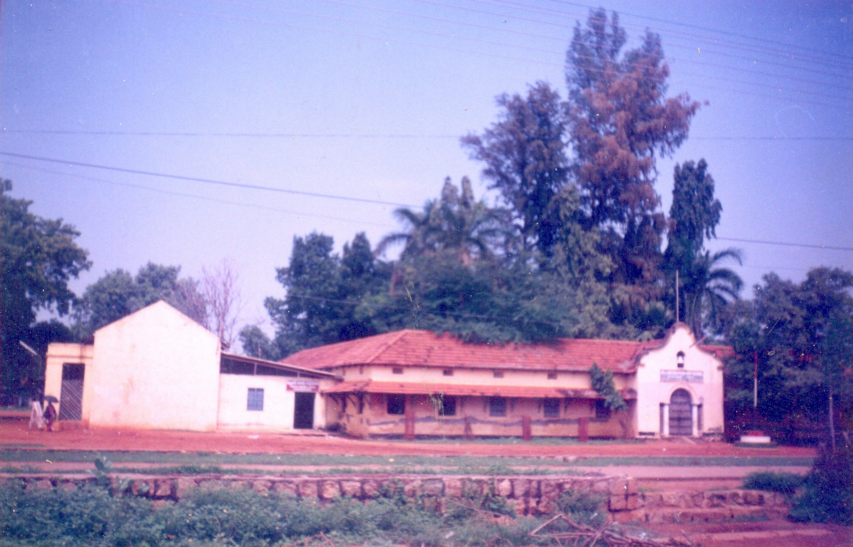 Side view of Railway Mixed Primary School, Golden Rock, which is located amidst "C"-Type Railway Quarters @ Golden Rock a.k.a Ponmalai.